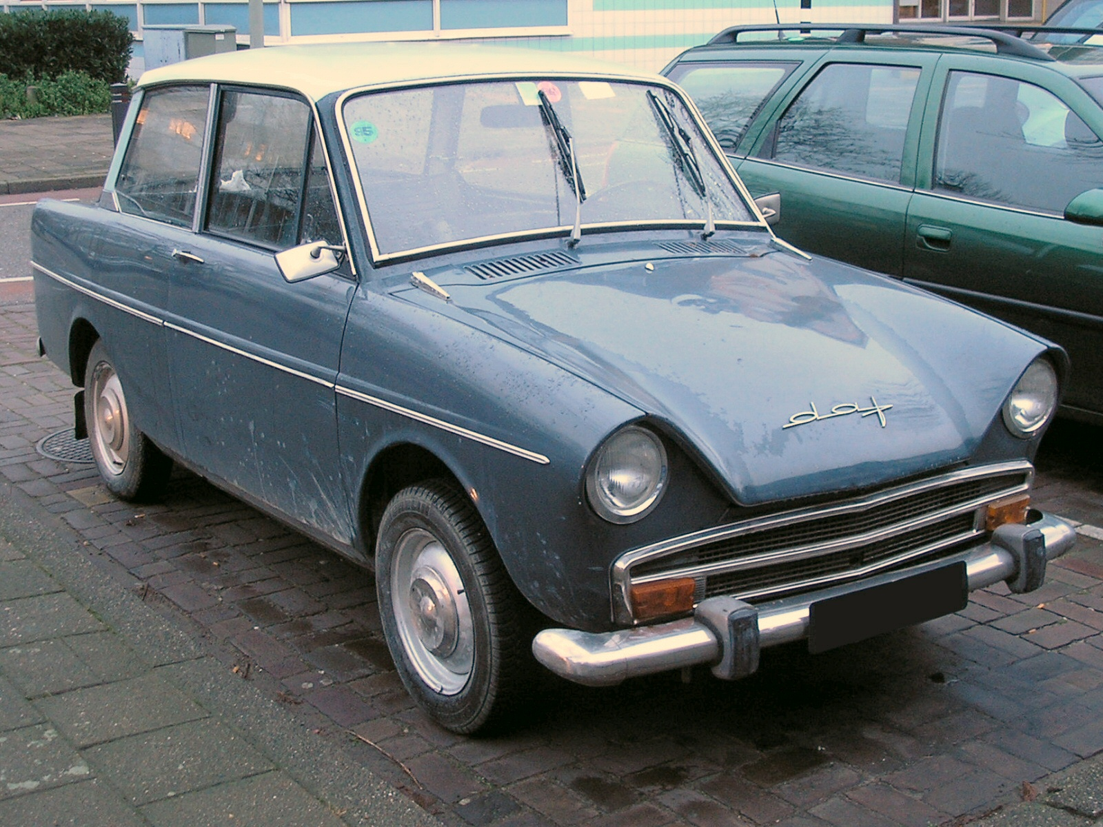 DAF 31 (en) or "Daffodil 31". Dutch registration from 30-03-1965. Location: Sittard, Netherlands Keywords: variomatic, two-tone